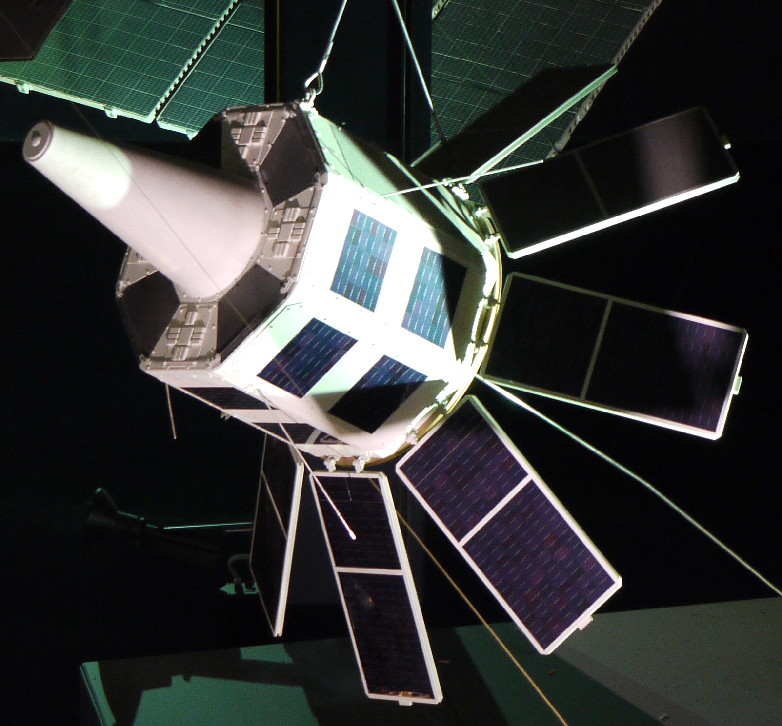 Relay satellite Eole (1971), Museum of Air and Space Paris, Le Bourget (France)